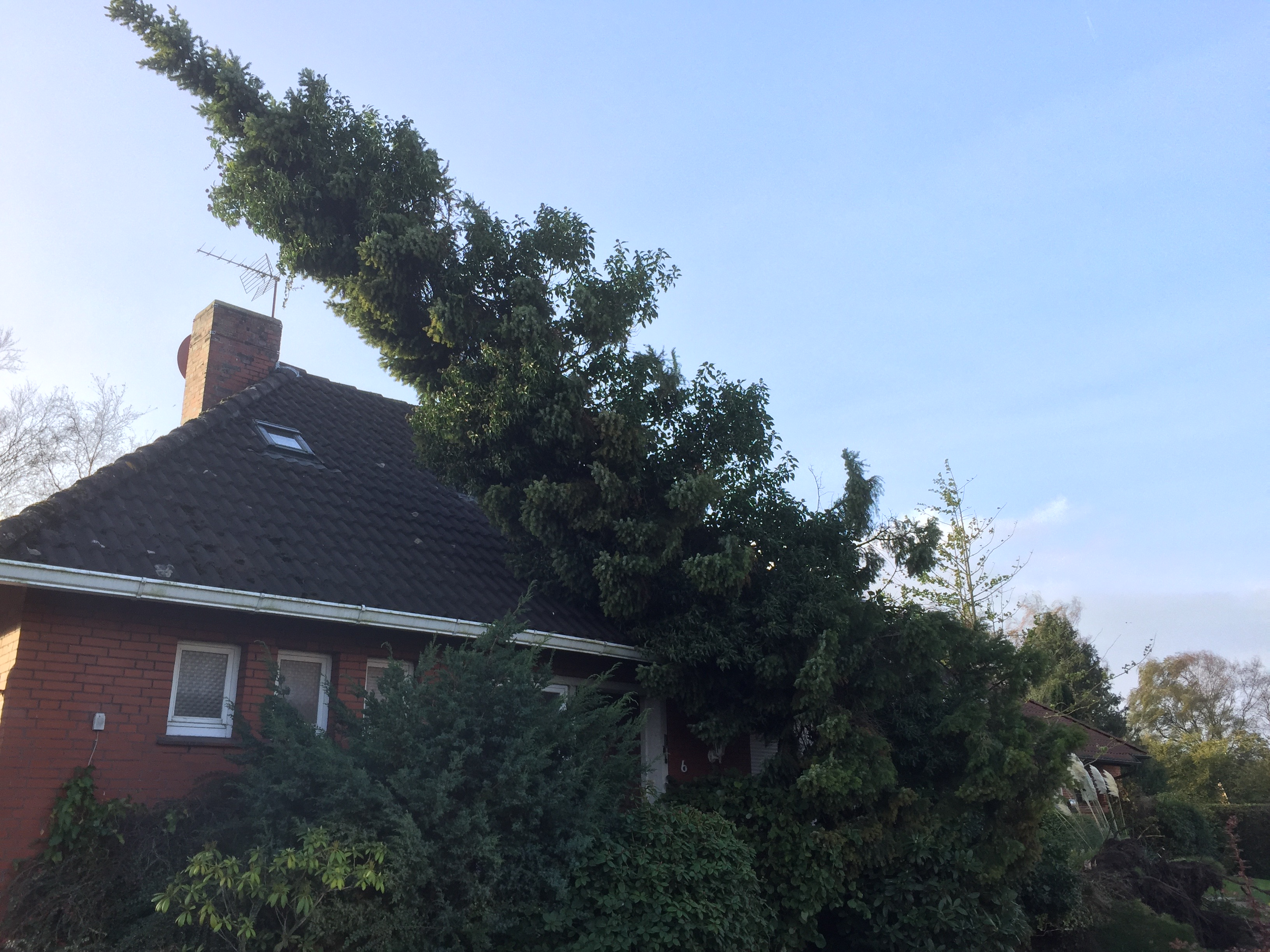 Uprooted spruce after stormy night in Emden